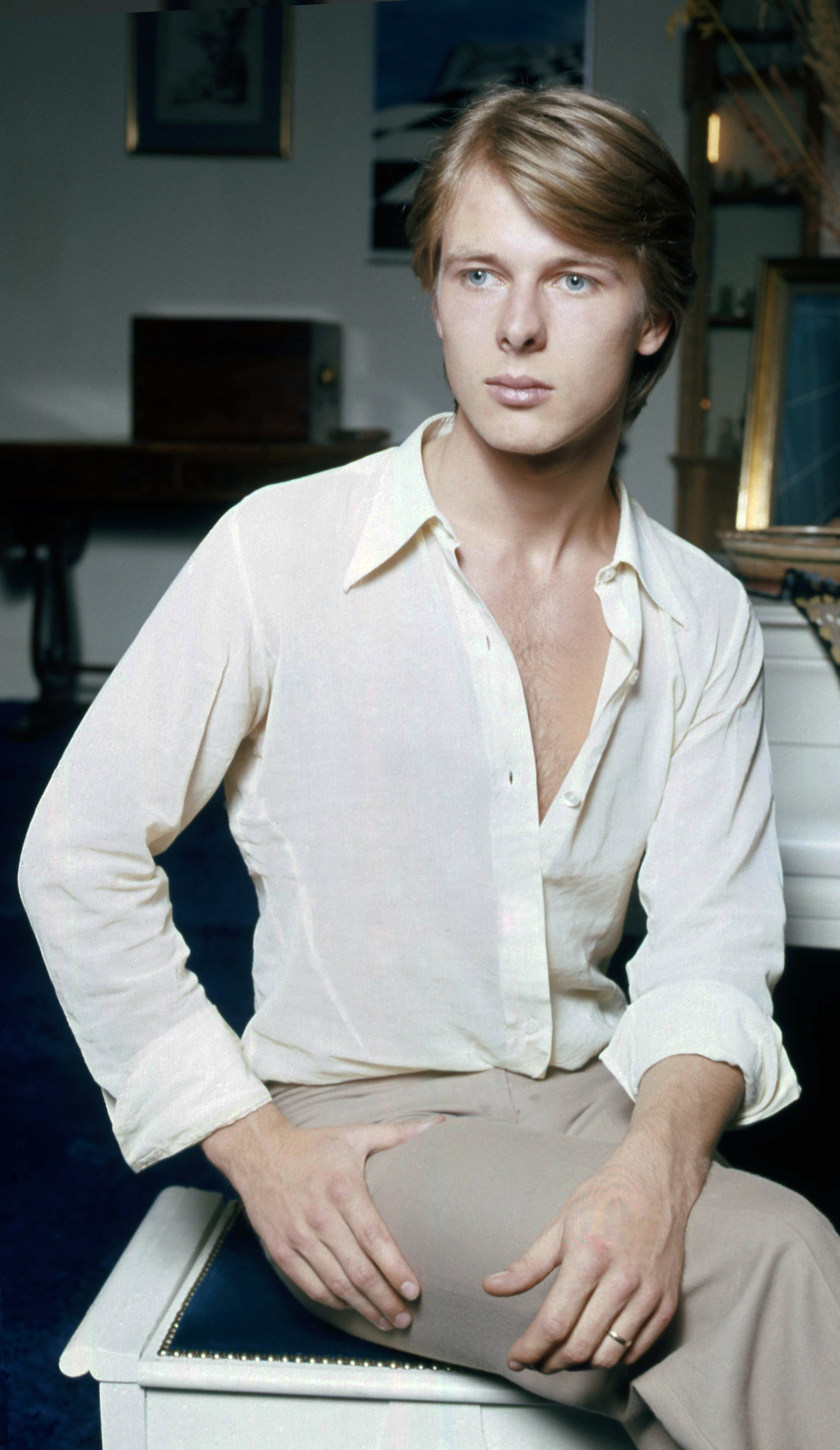 John Moulder-Brown, taken at photographer's home